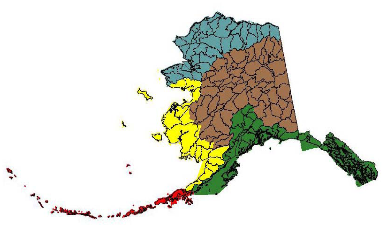 Comparison of major land resource regions of Alaska with watershed (8-digit hydrological unit) boundaries. The regions are Southern Alaska (green), Aleutian Alaska (red), Western Alaska (yellow), Interior Alaska (brown), and Northern Alaska (blue). p 89, region identification on the main map p9.